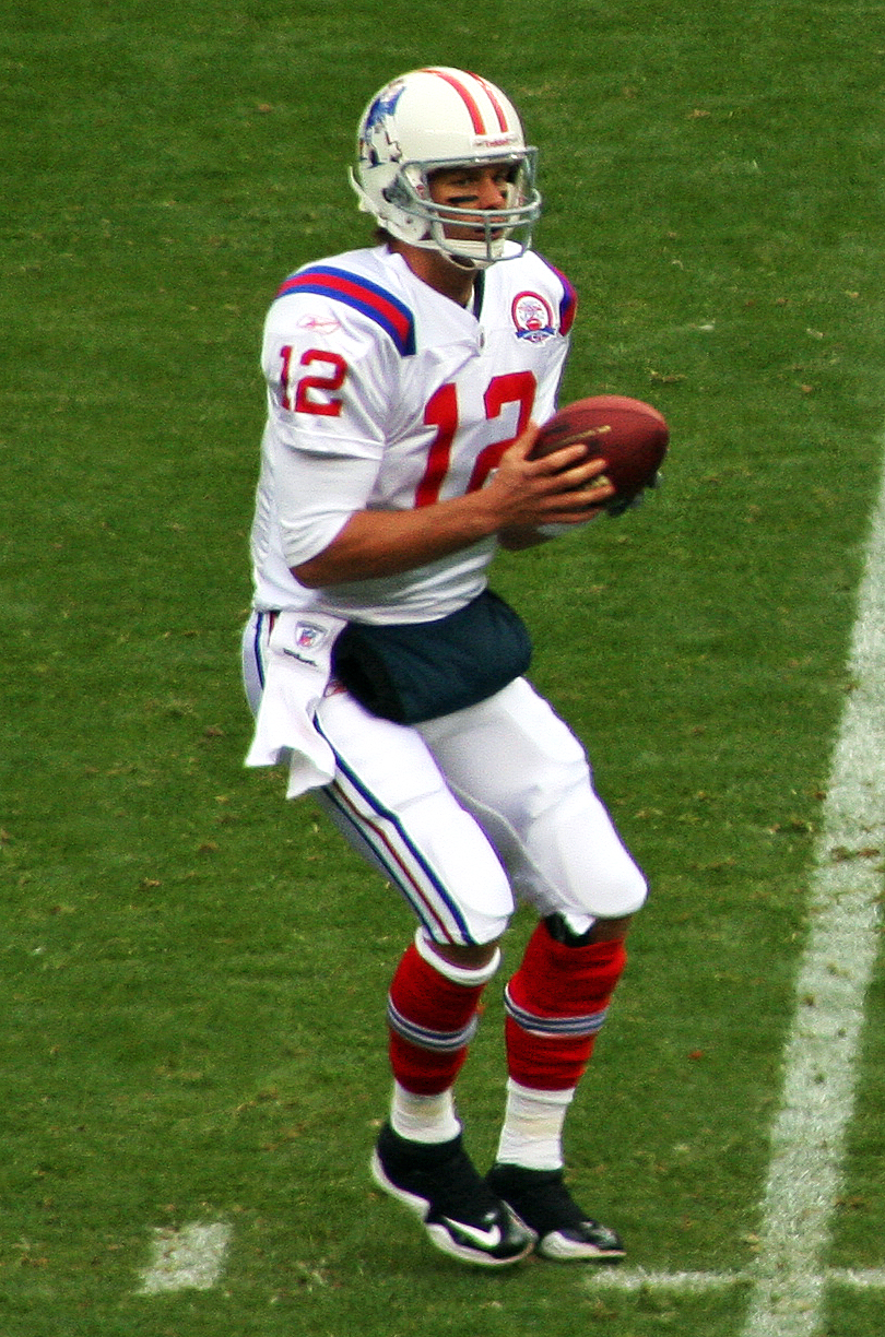 New England Patriots QB Tom Brady during 2009 Patriots-Broncos